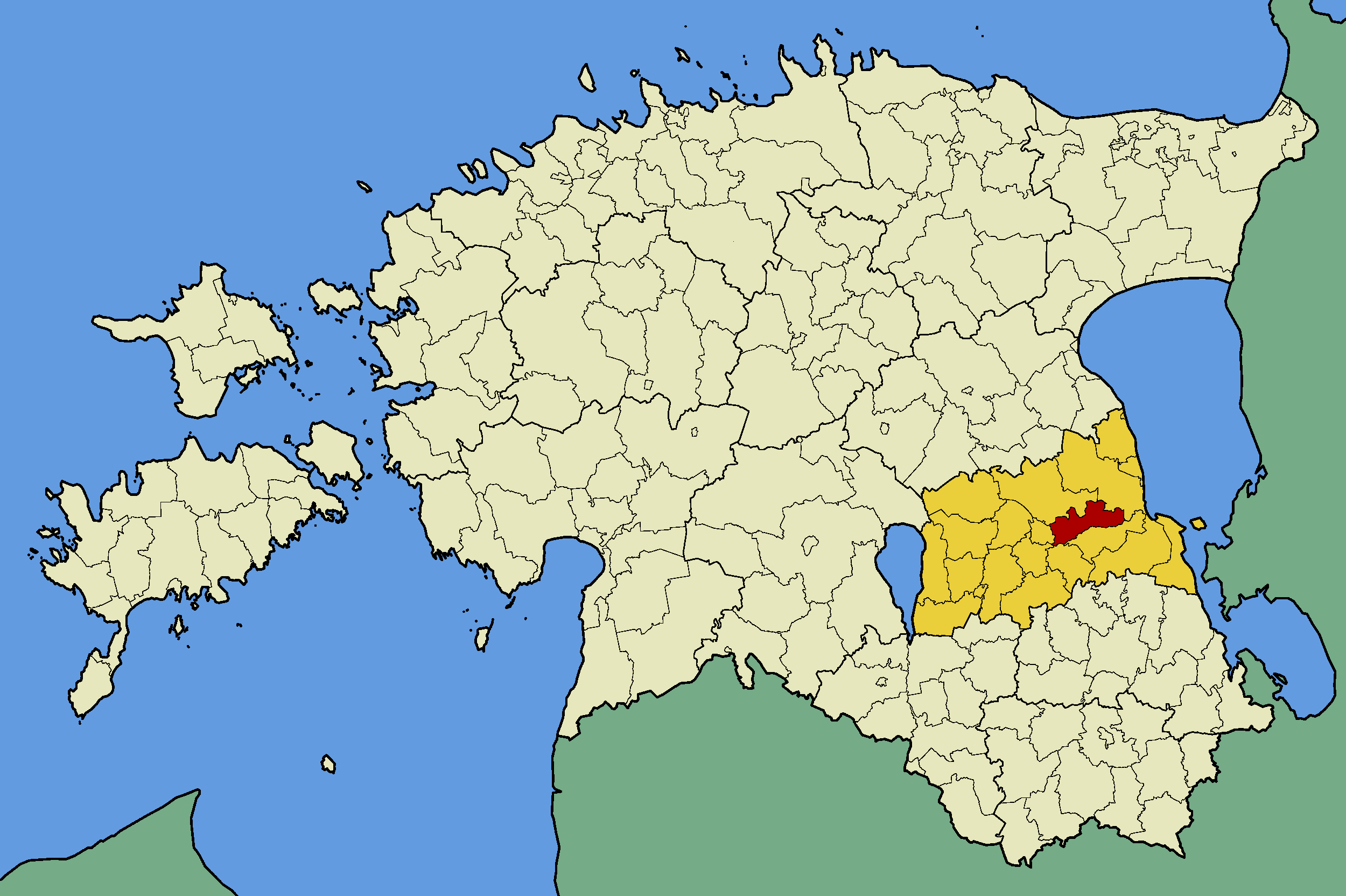 Map of Estonia with borders of municipalities (parishes). Tartu county and Luunja municipality emphasized.